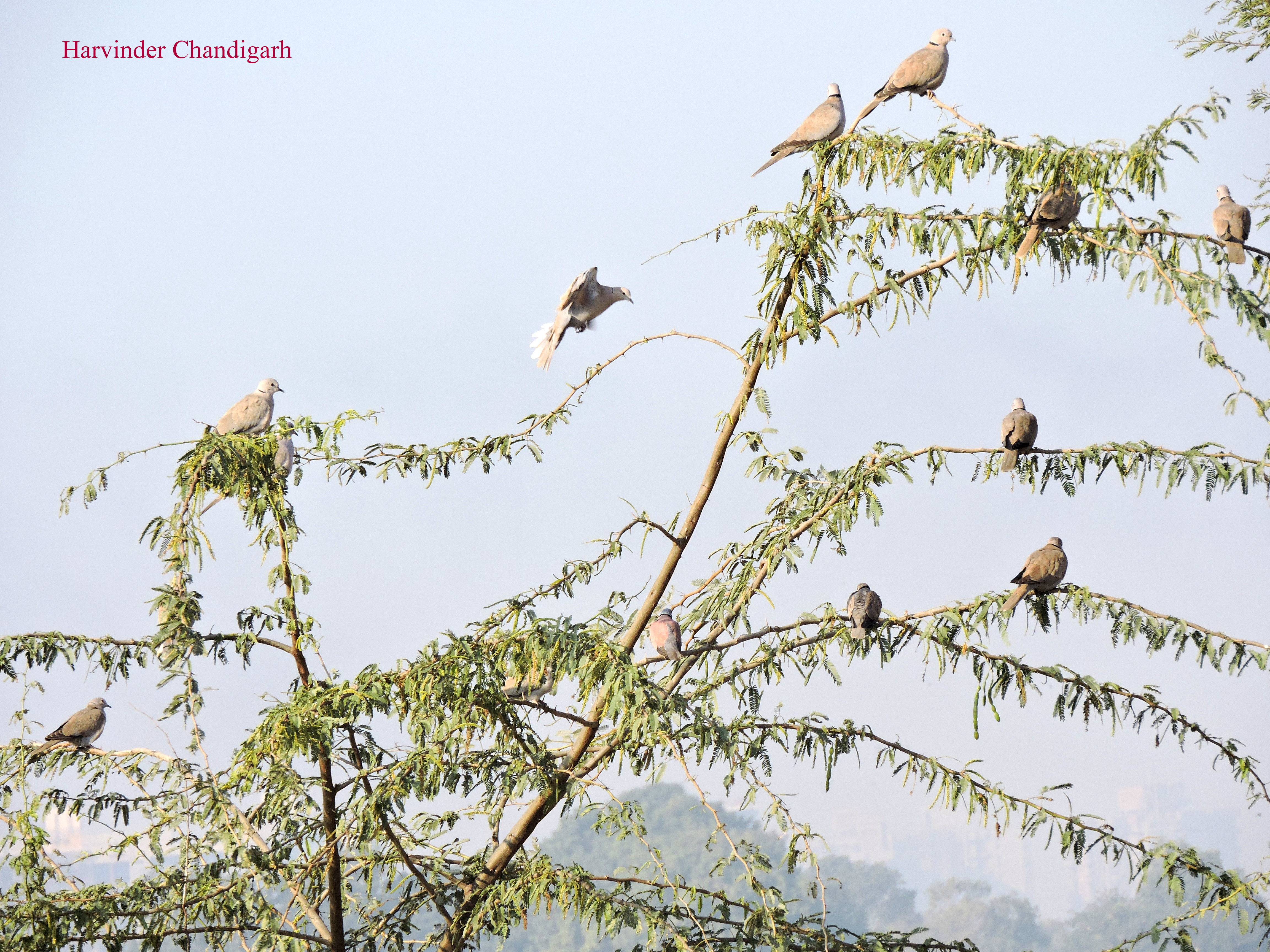 Flock of Eurasian collared doves Village Behlolpur, Mohali, Punjab, India